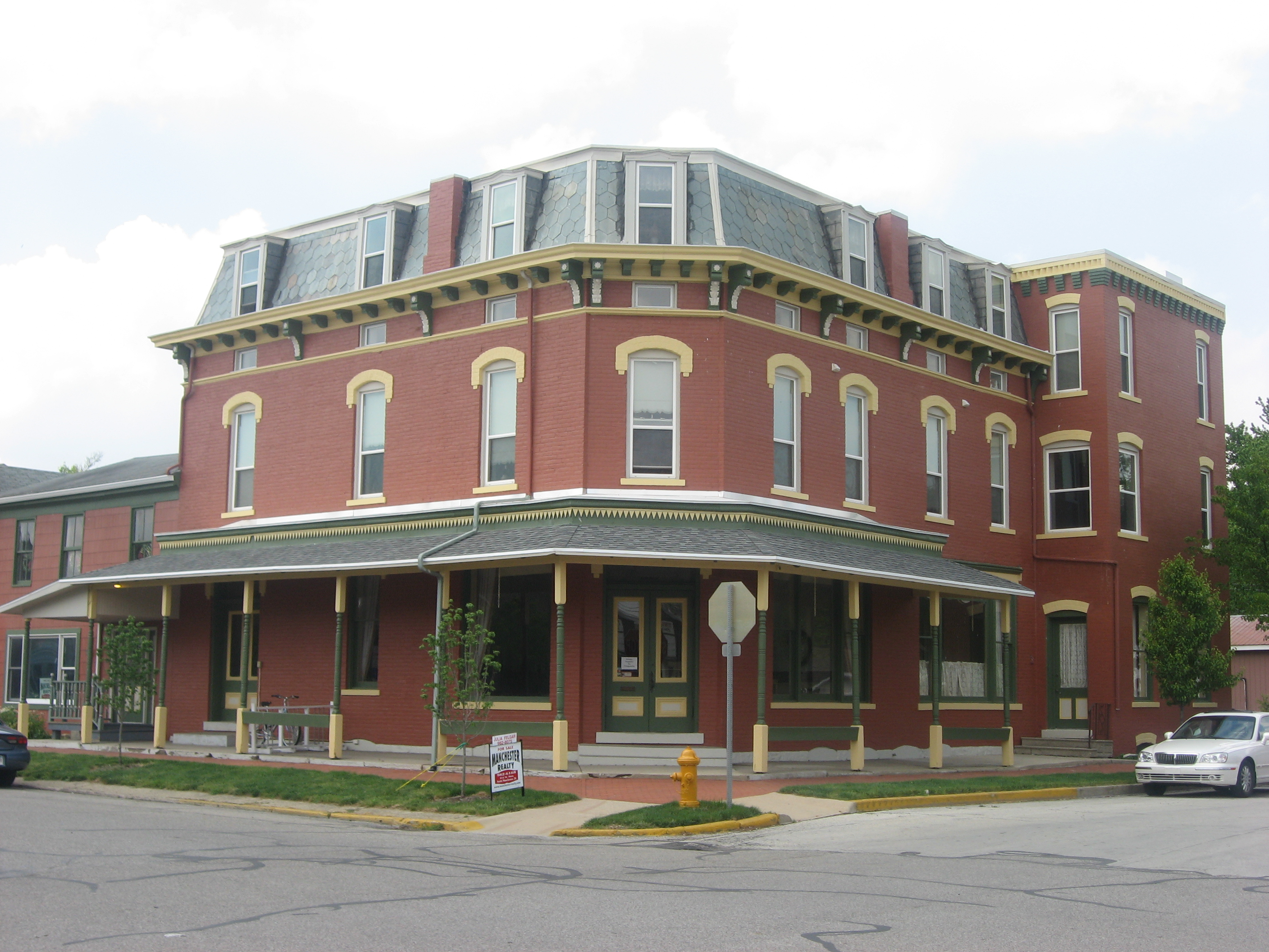 Front and southern side of the Lentz House (the former Hotel Sheller), located at 202 N. Walnut Street in North Manchester, Indiana, United States. Built in 1847 and later converted into the Second Empire style, it is listed on the National Register of Historic Places, and it is part of a Register-listed historic district, the North Manchester Historic District.